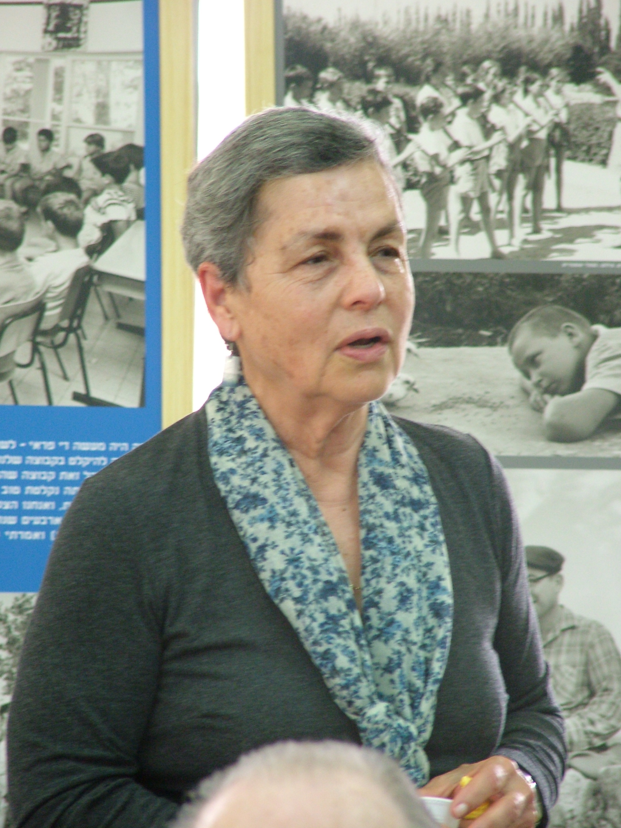 Osnat Shiran